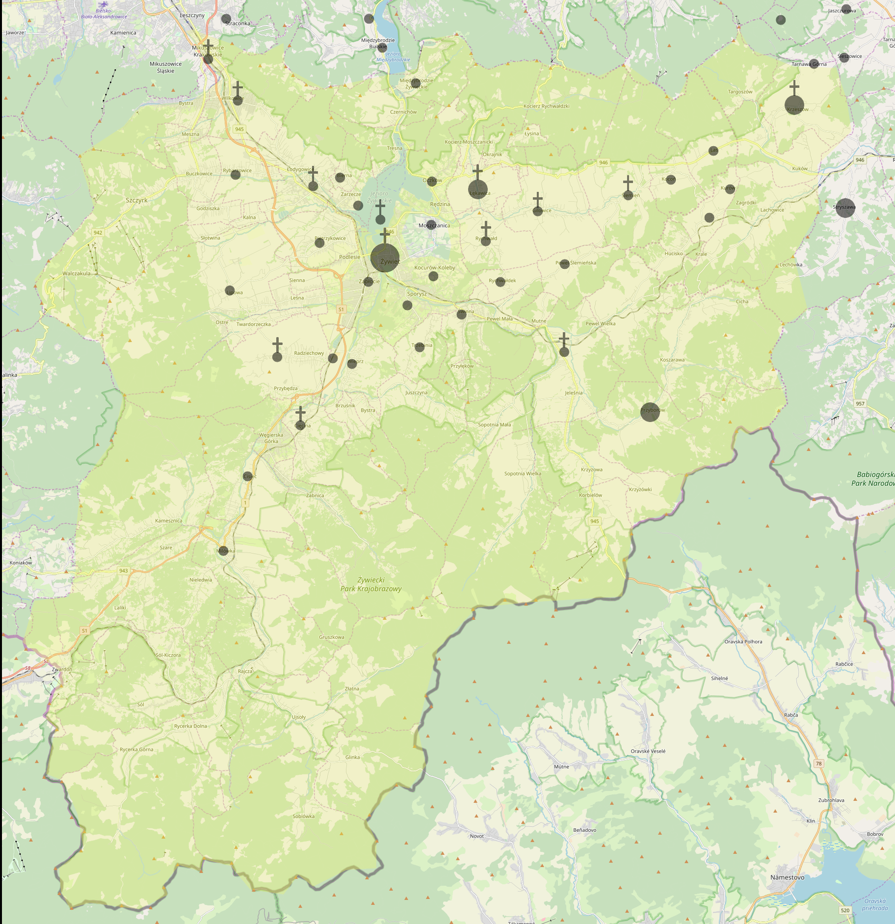 Light yellow: Territory owned by Krzysztof Komorowski (1542-1608) around Żywiec; black dots - existing settlements, crosses parishes